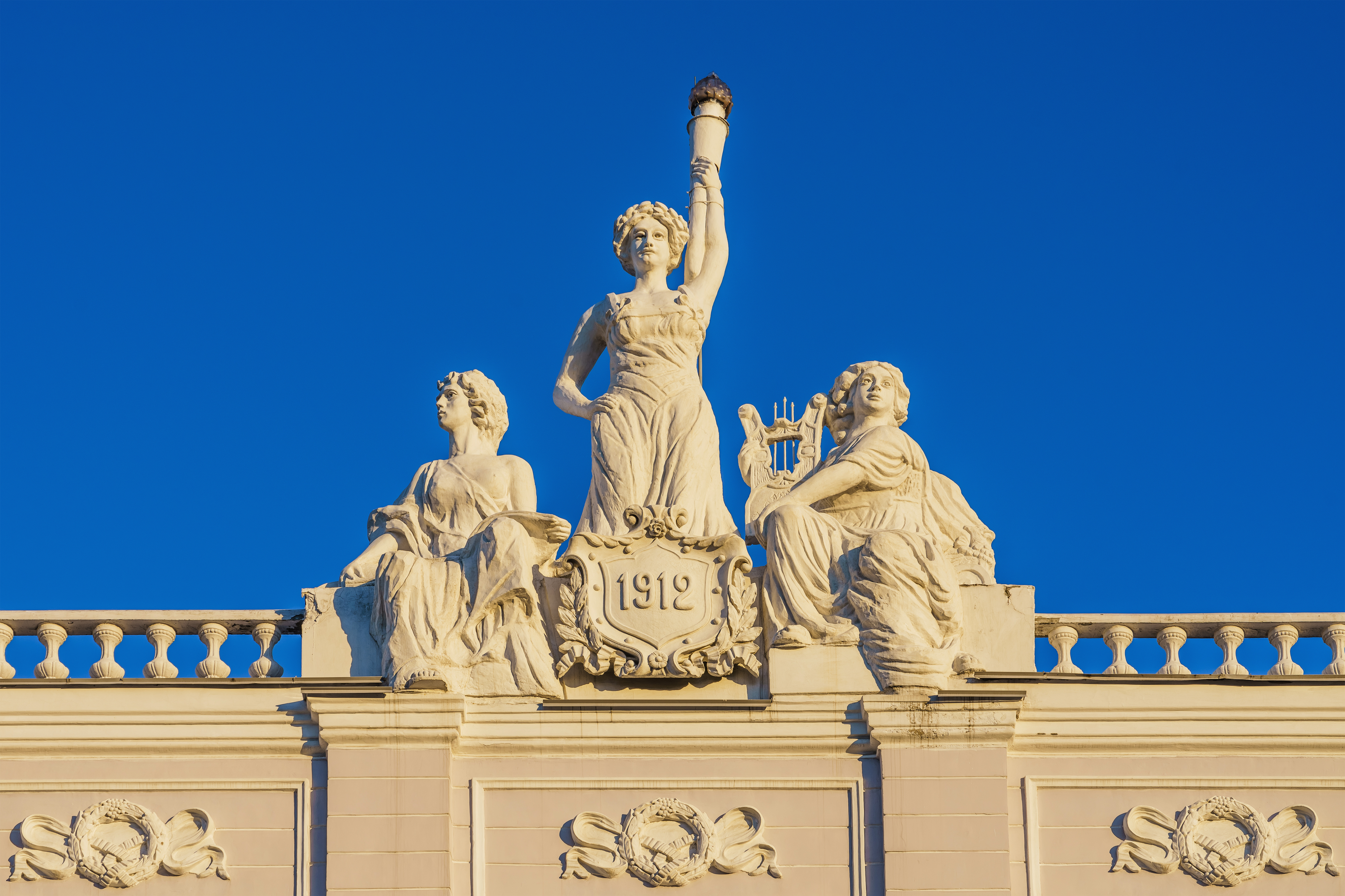 Detail of the Opera and Ballet House in Ekaterinburg, Russia